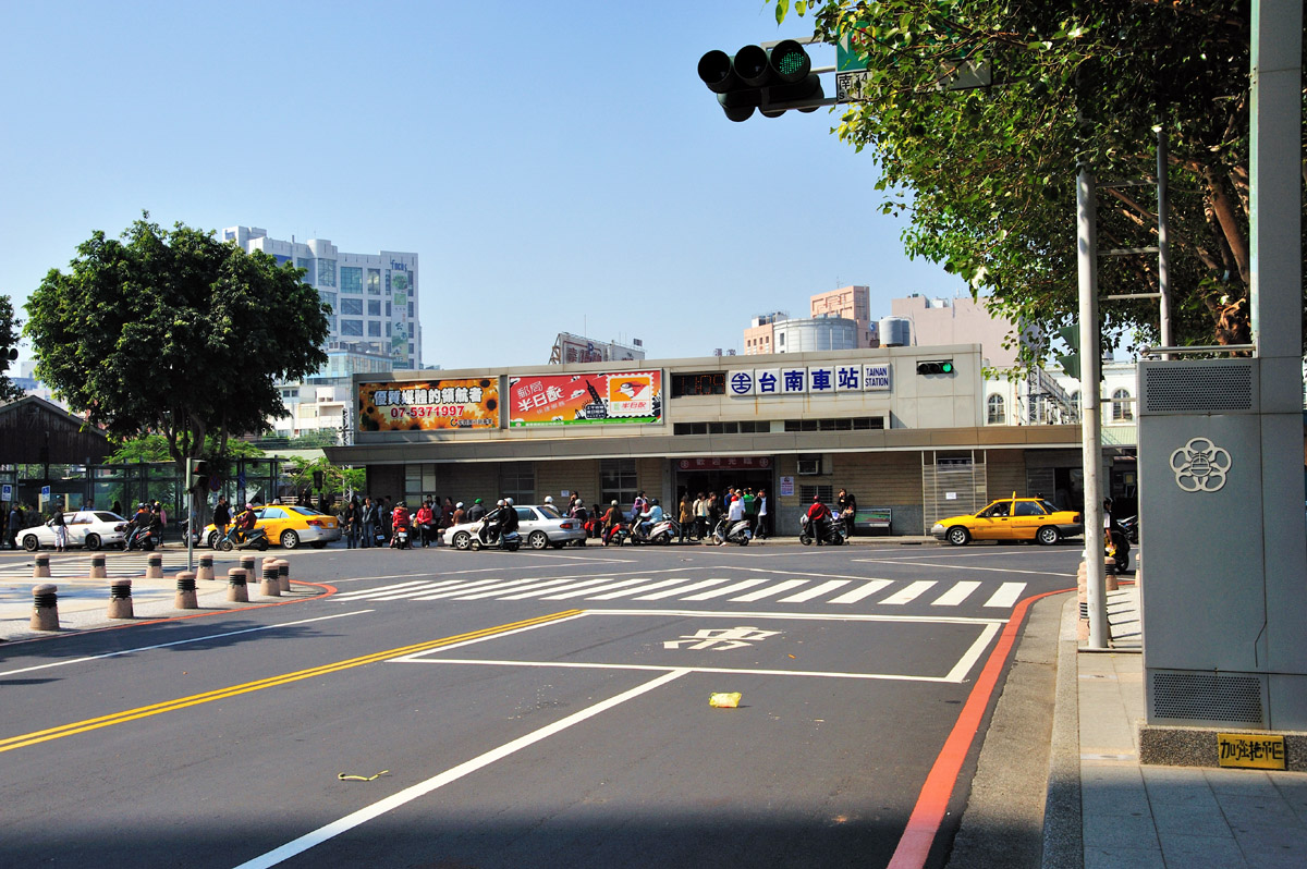 Tainan Station is a main train station of Taiwan's Western main rail line. It locates within the boundary of Tainan City and is the main station of the city. This photo shows the "Rear Station" of Tainan.